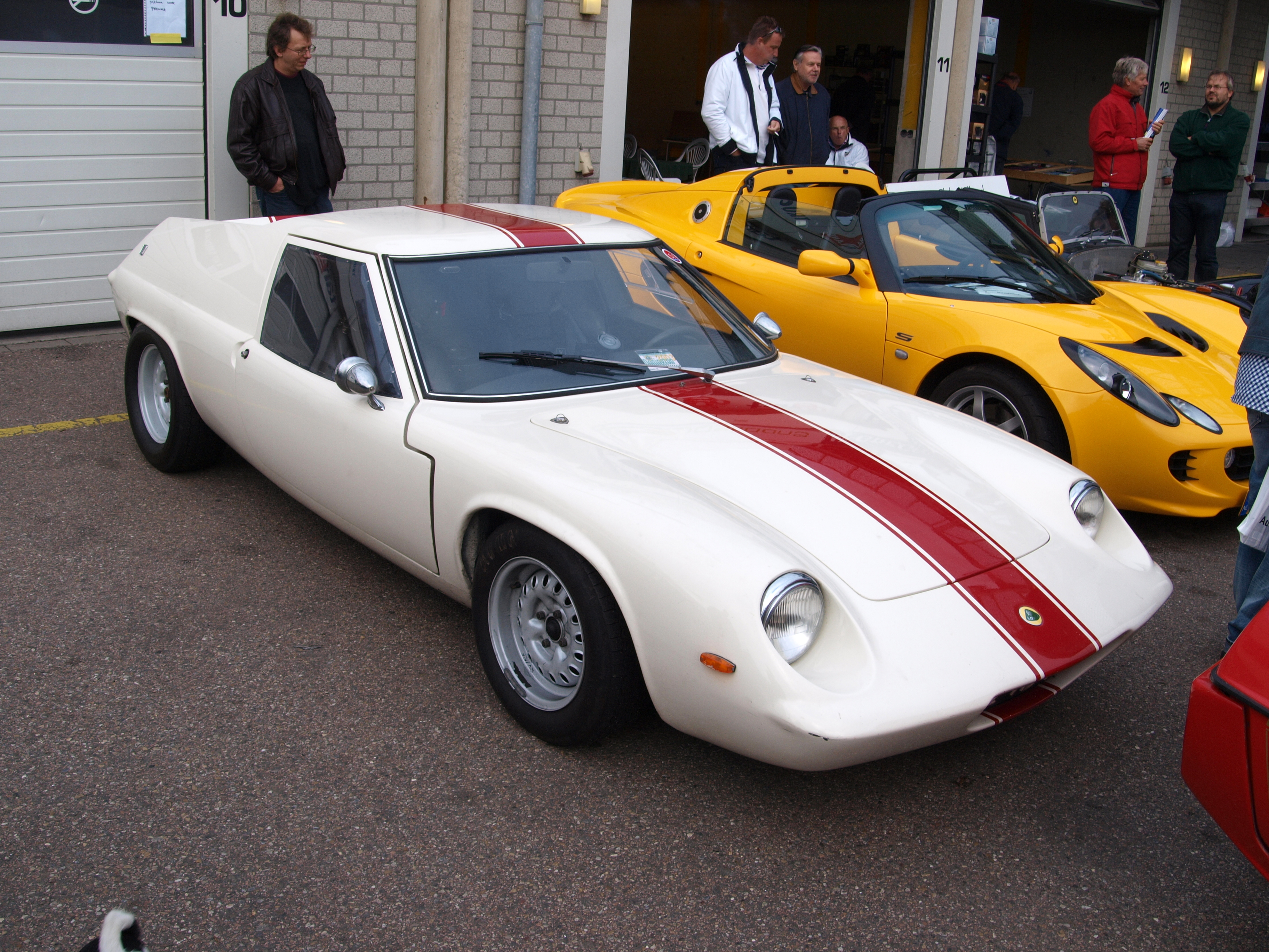 Photographed at the Nationaal Oldtimer Festival Zandvoort 2010, The Netherlands.